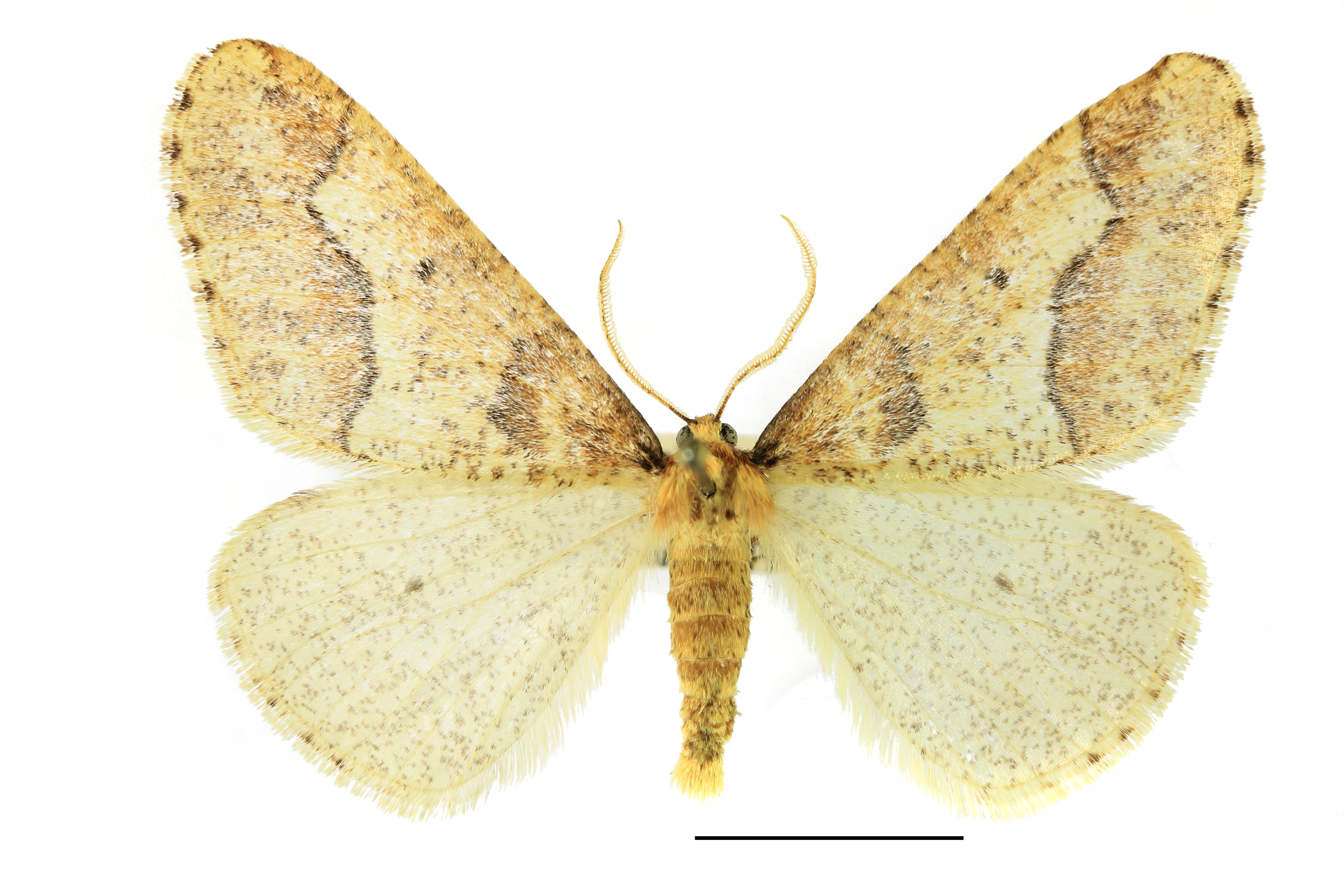 Erannis defoliaria (2), insect collections SLU, Uppsala